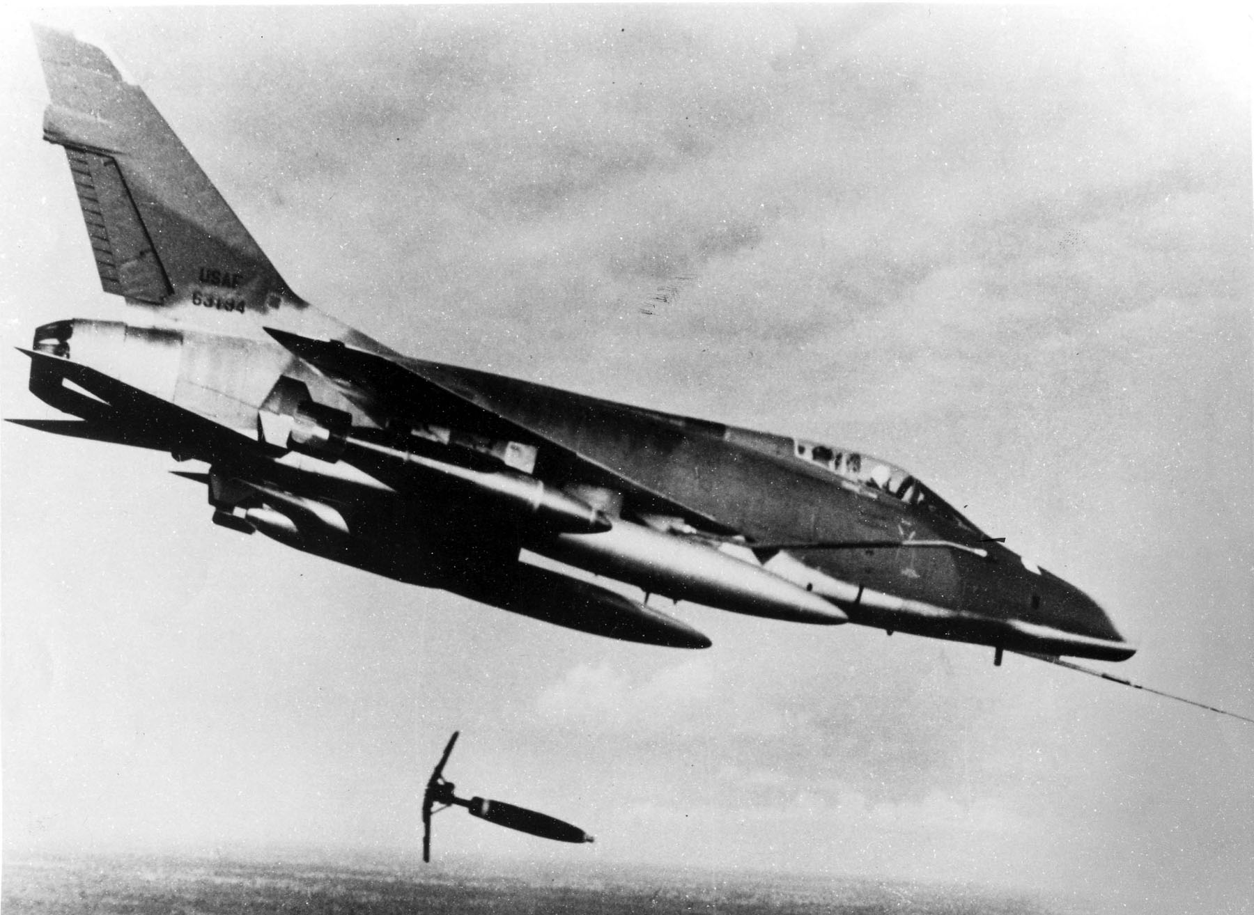 A North American F-100D-75-NA Super Sabre (S/N 56-3184) in flight dropping a 227 kg (500 lb) Snake-Eye bomb on suspected Viet Cong position in 1966. This aircraft was retired to the MASDC on 23 August 1979 as FE0589 and later converted to a QF-100D target drone.